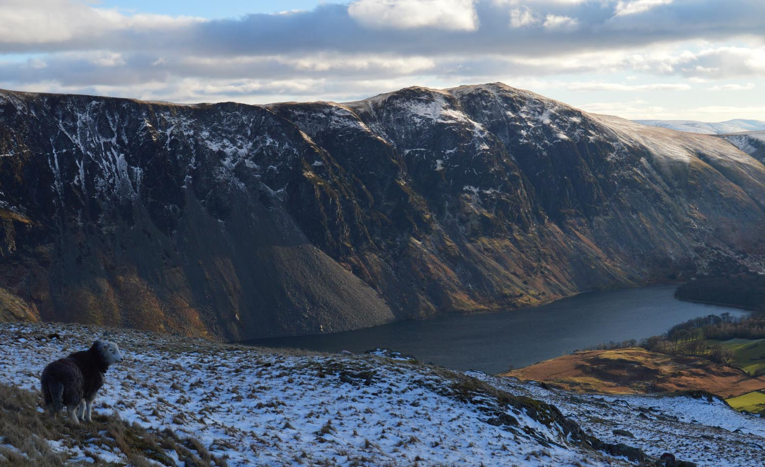 IllGill Head and Wastwater, Wasdale Cumbria